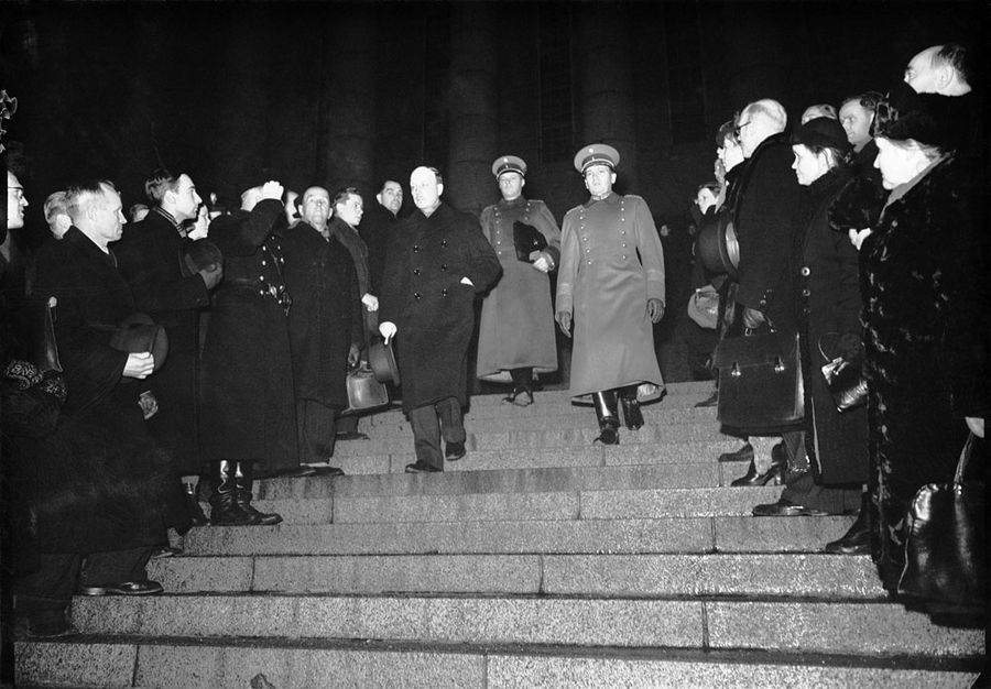 Having given the solemn oath, Ryti leaves the parliament building.